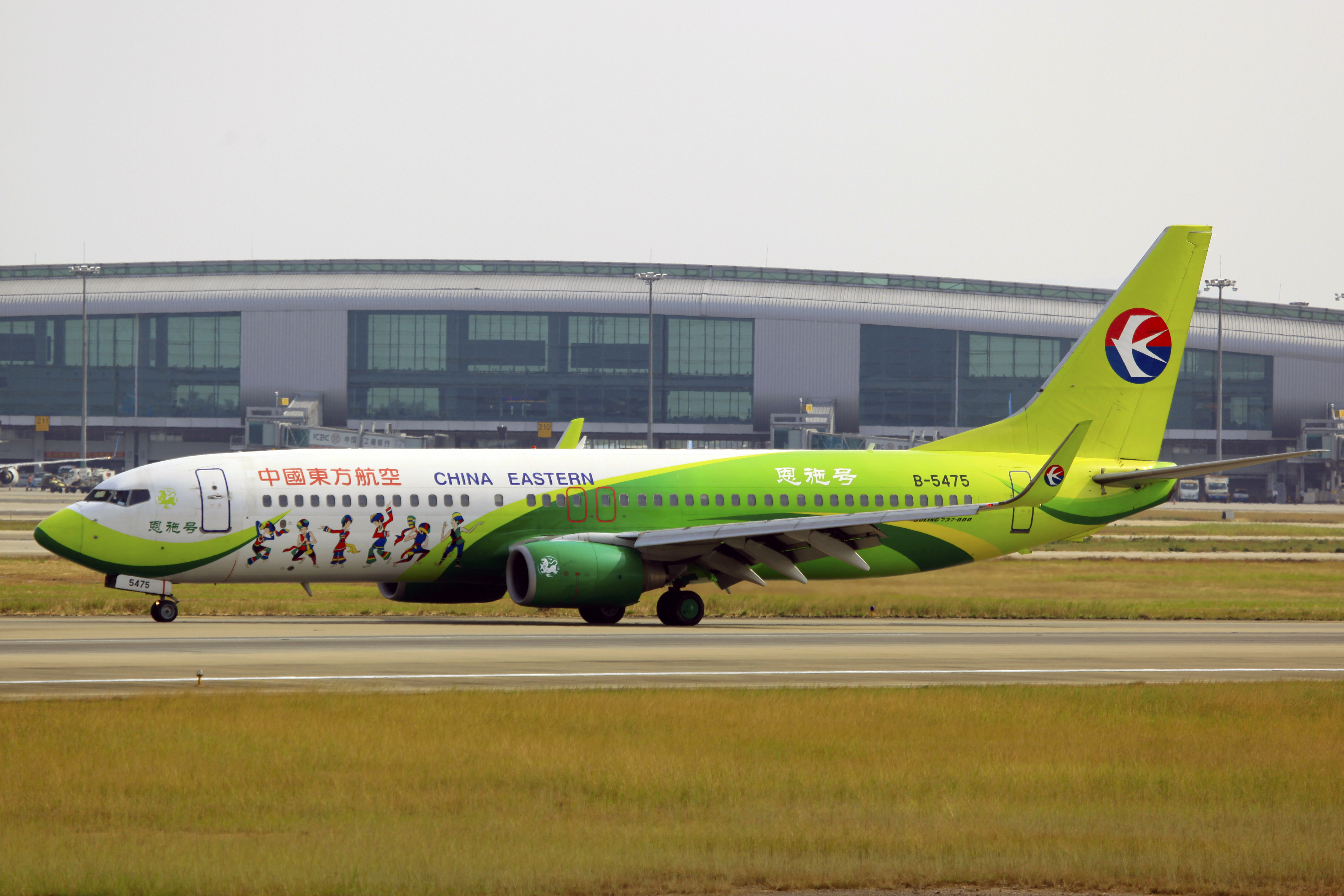 B-5475 | China Eastern Airlines | Boeing 737-89P(WL) | Tujia, Enshi Livery | Guangzhou Baiyun International Airport [CAN]